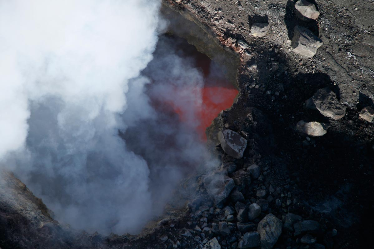 Looking down the throat of Pele. Orange glow inside of Halemaʻumaʻu vent hole.